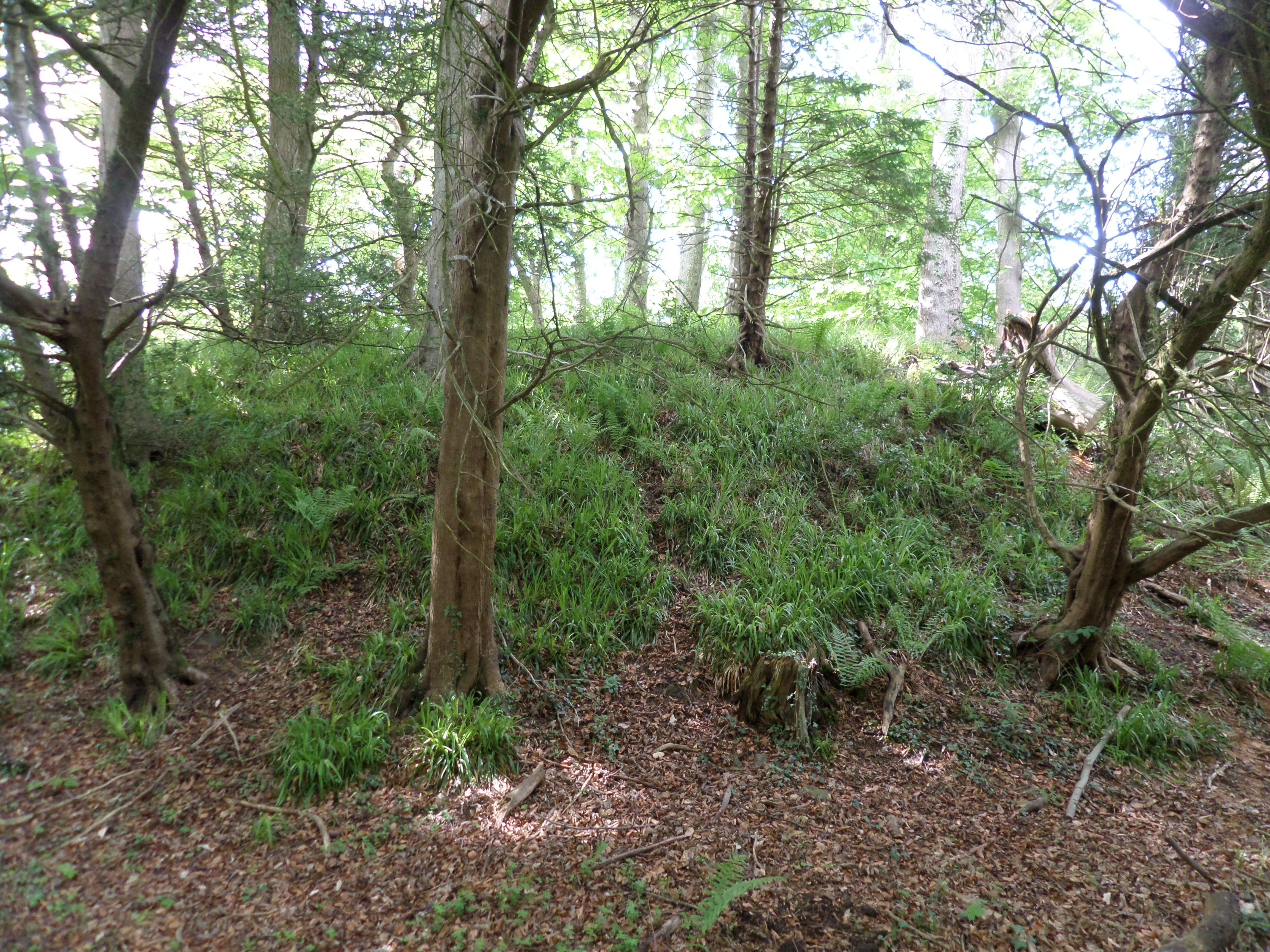 Alloway Motte and Court Hill, Ayr, South Ayrshire, Scotland. Located at the entrance to the private Doonholm Estate.